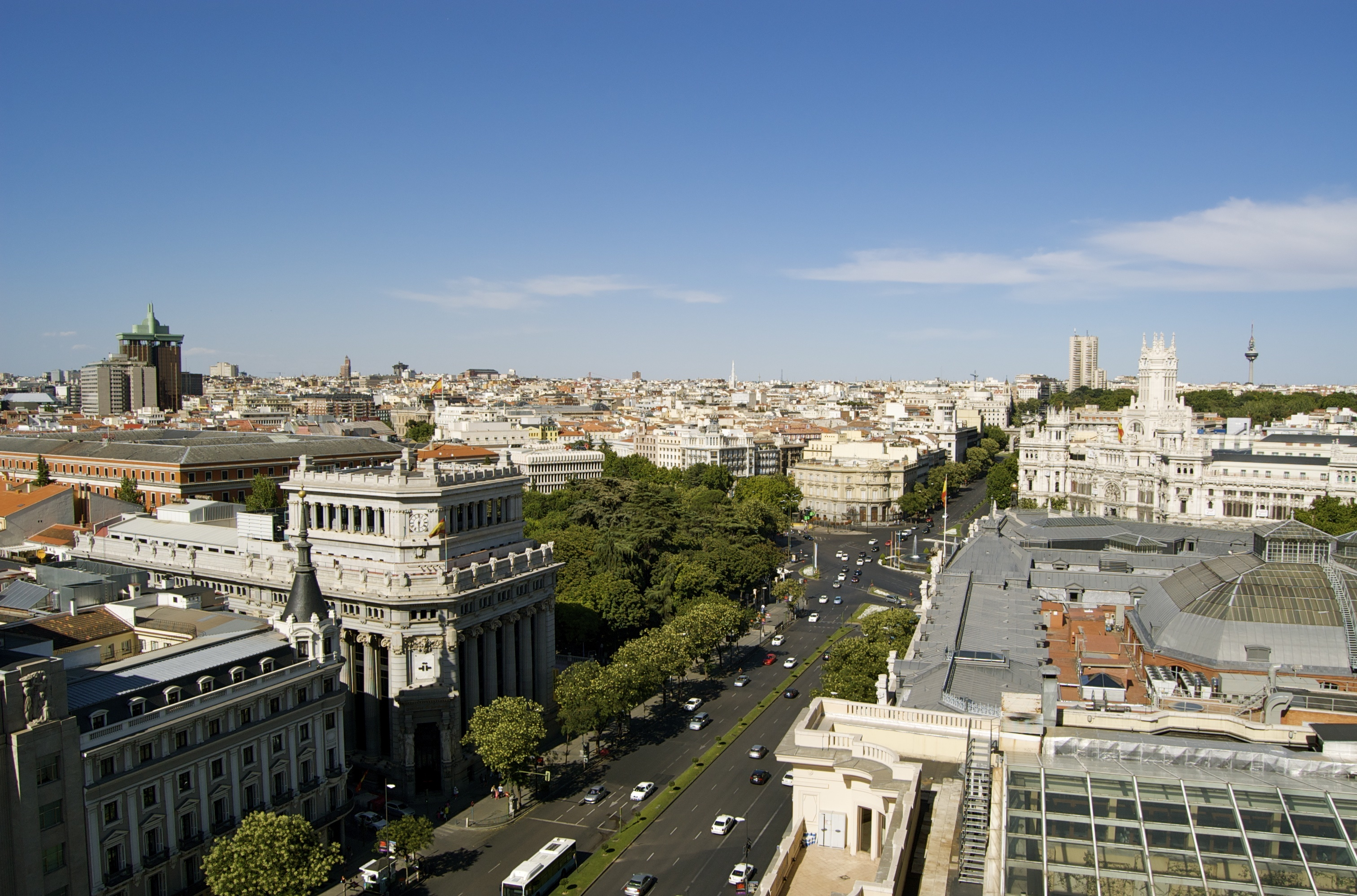 View of Calle de Alcalá (street) in Madrid (Spain) from Círculo de Bellas Artes' flat roof.